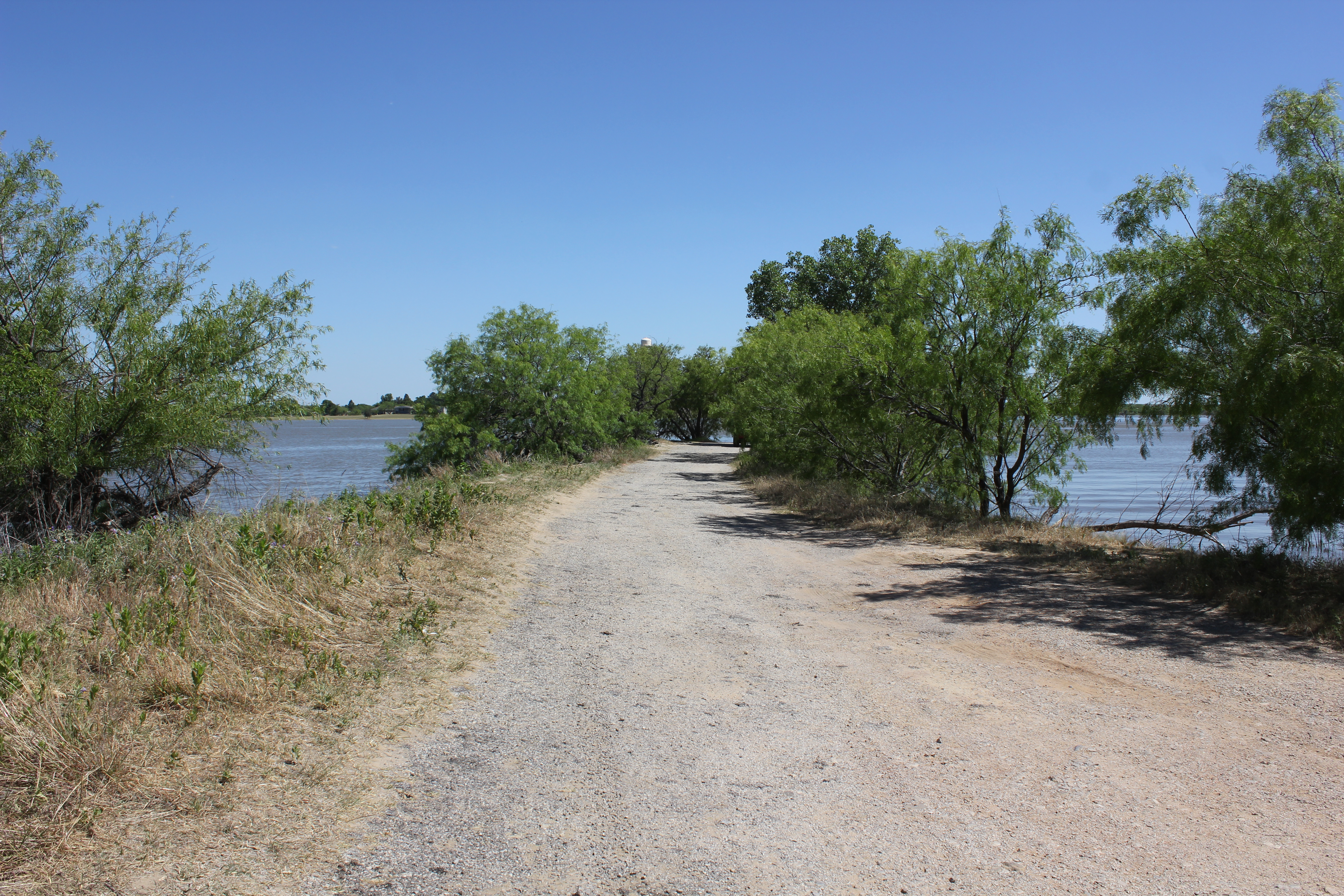 Lake Arrowhead State Park